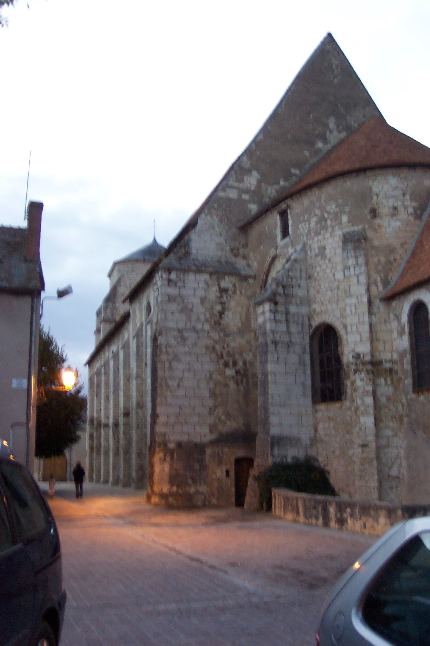 lateral side of french collegiate church St Martin from Léré (Cher)